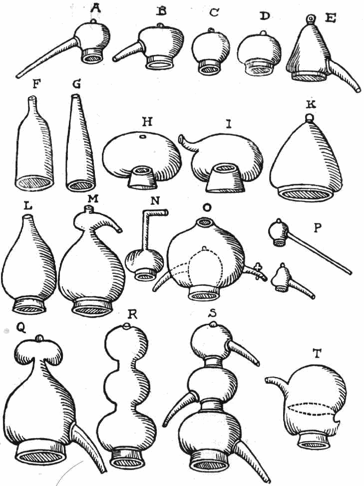 Drawings of alembics from a Renaissance chemistry book by Andreas Libavius. These were glass and ceramic hoods for vessels used for distillation. The distillation vessel (called the "cucurbit") would be heated by a flame, the liquid inside would boil and the vapor would rise into the alembic, where it would condense by contact with the cool glass walls and run down the spout into a receiving container. Alembics were invented during the Middle Ages for use in alchemy, the protoscientific precursor to chemistry.